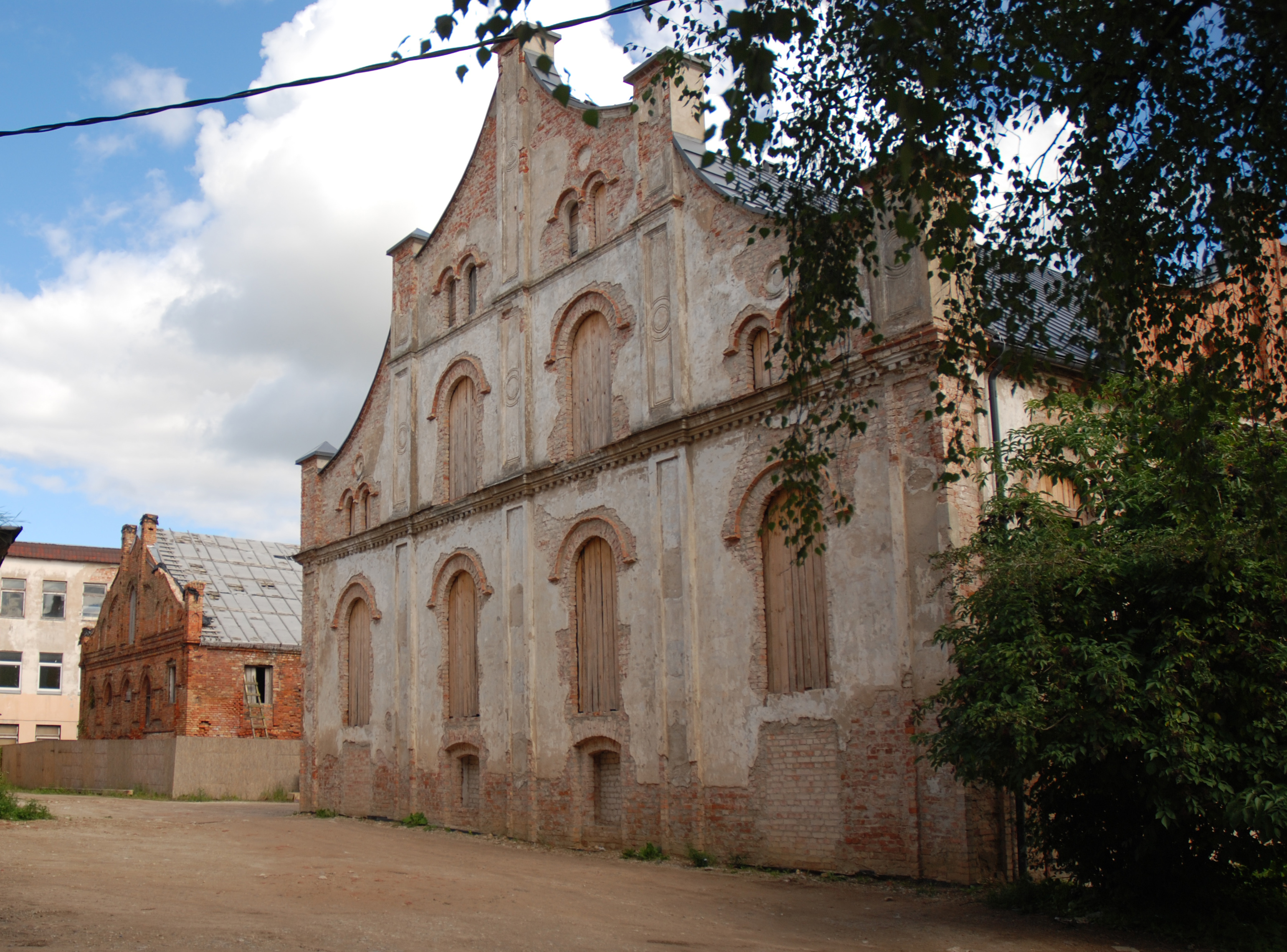 The White Synagogue and the Red Synagogue in Joniškis, Lithuania